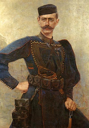 Pavlos Melas armed and wearing the doulamas. Painting based on Melas's last photograph, shot on 21st August 1904.